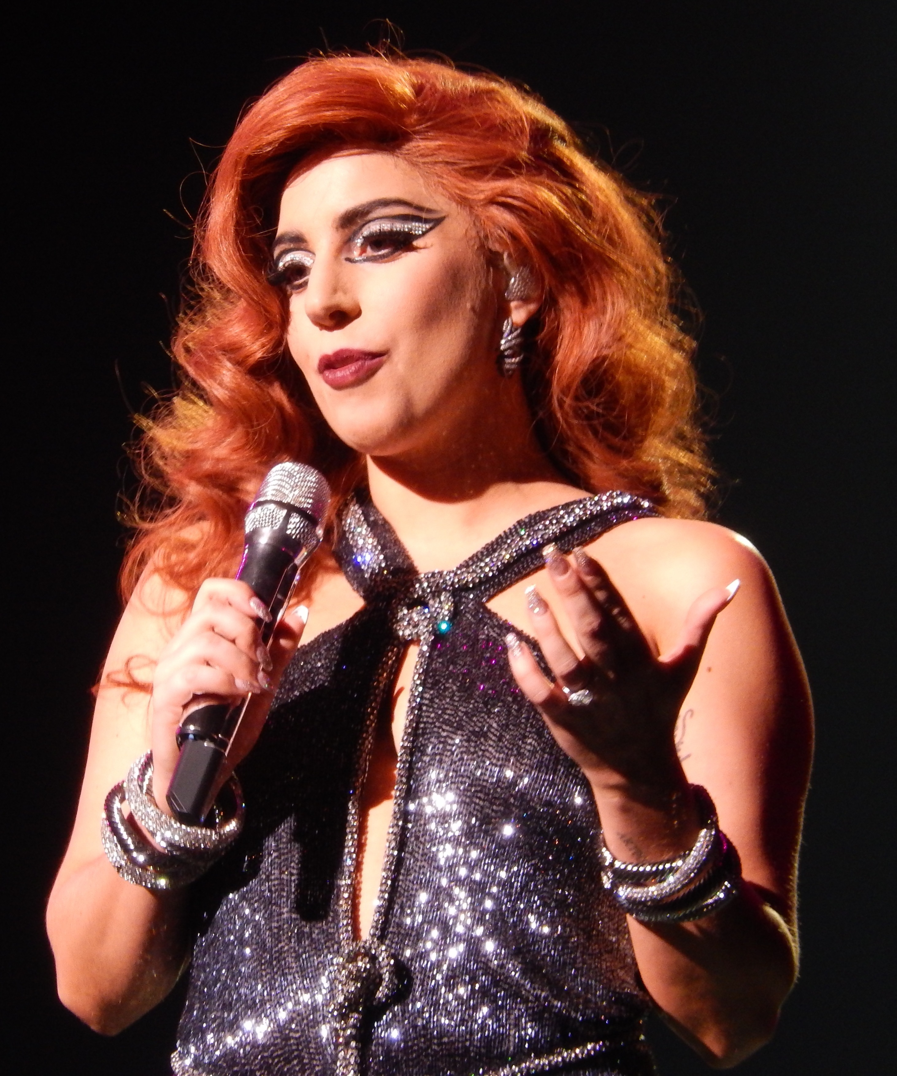 Cheek to Cheek Concert. The Axis. Planet Hollywood. Las Vegas. April 2015. Gaga and Bennett performing at Los Angeles for the Cheek to Cheek Tour